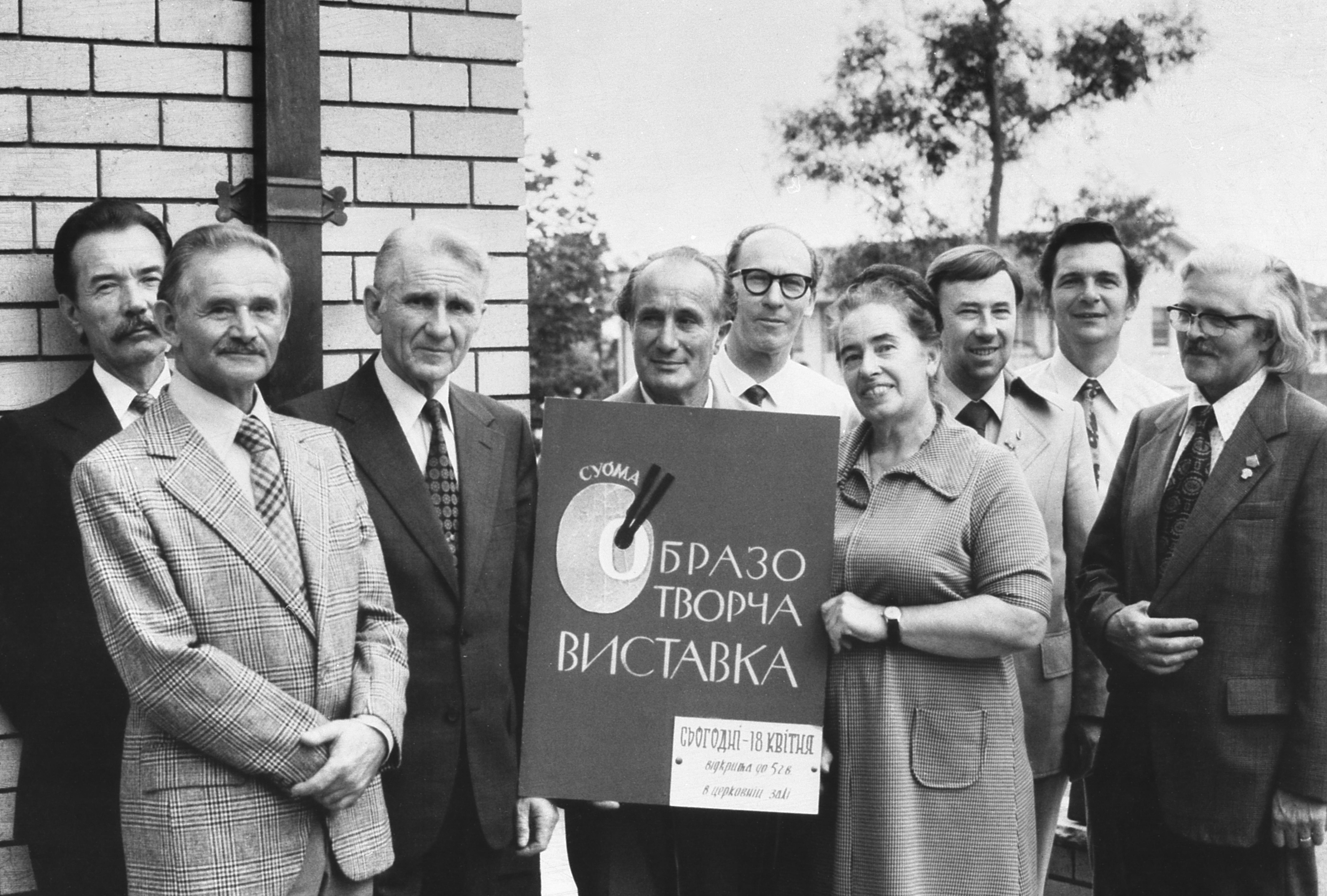 Members of the Ukrainian Artists Society of Australia (NSW) at the time of their art exhibition held at the Ukrainian Catholic Church Parish hall, Lidcombe, Australia, 18 April 1976.